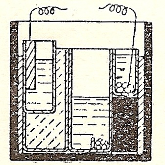 Daniell standard cell.